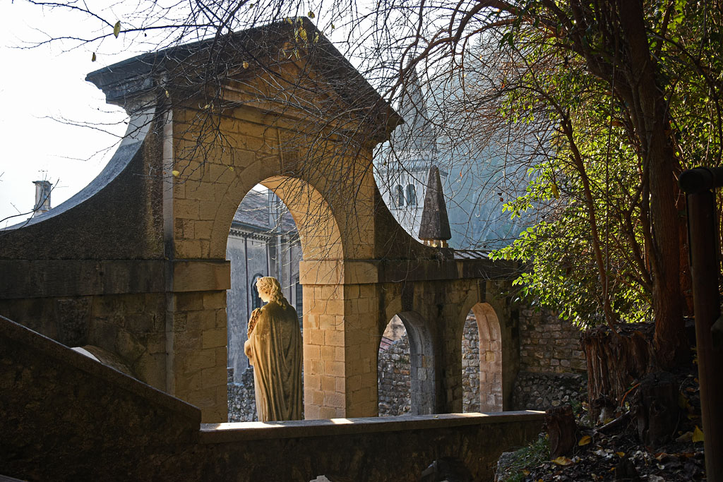 Serravalle, The statue of Santa Augusta on the top of staircase.